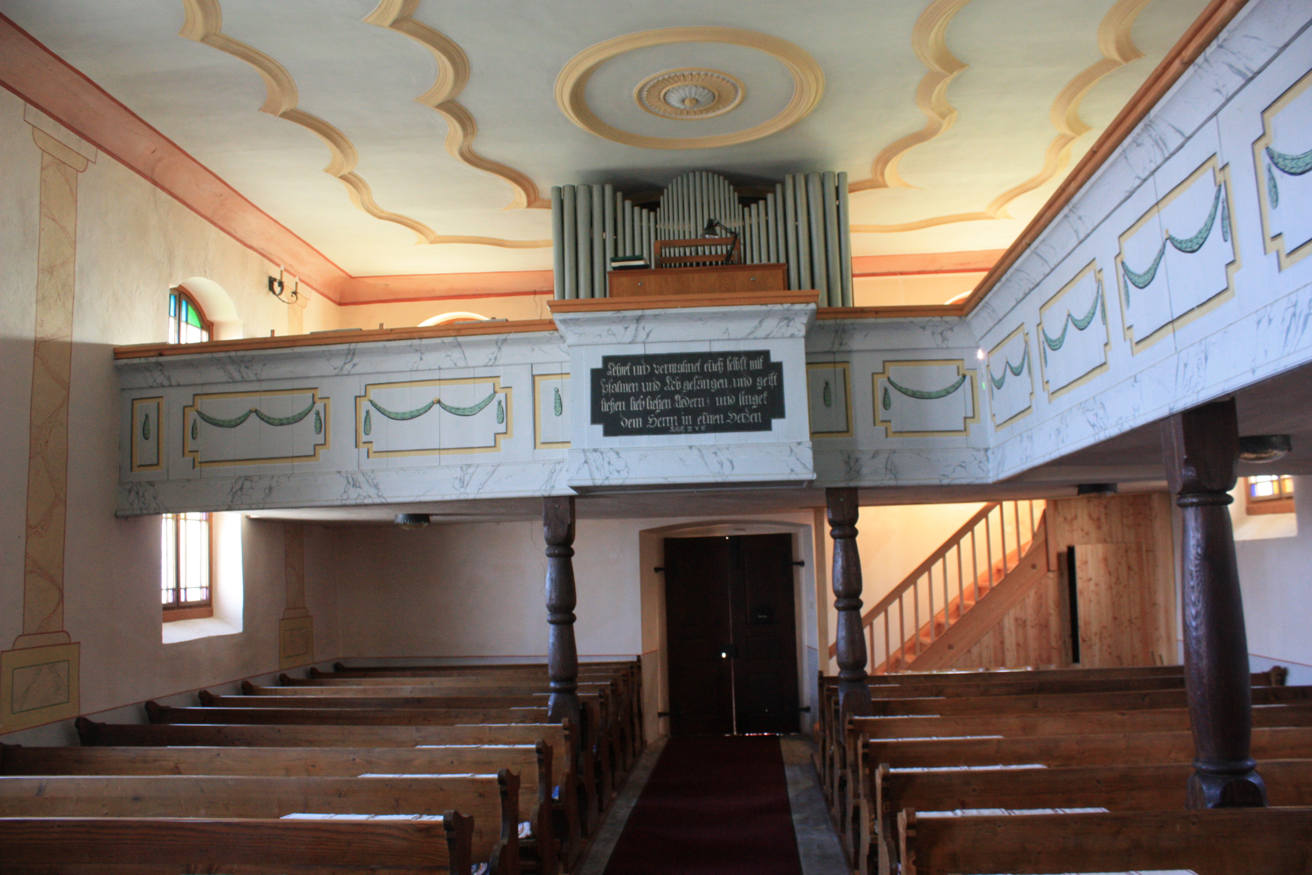 Lutherian church - View to the organ loft Locality: Tschöran Community:Steindorf am Ossiacher See